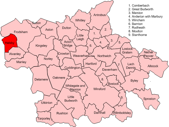 Map of civil parish of Helsby, Vale Royal, Cheshire